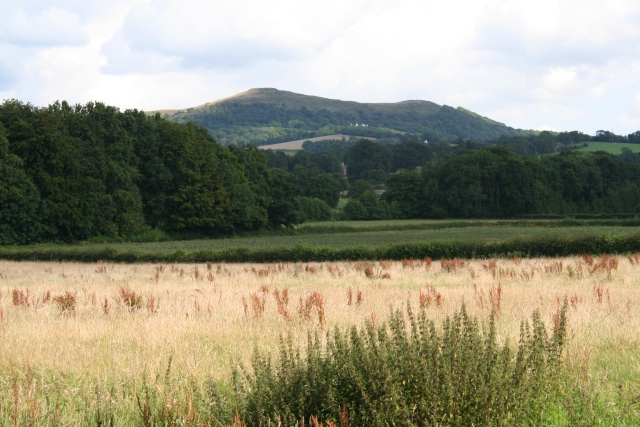 Hay Meadow Hay about to be mown (the field next door has already been partially cut). Looking towards the iron age hill fort occupying the two peaks: Herefordshire Beacon and Millennium Hill.